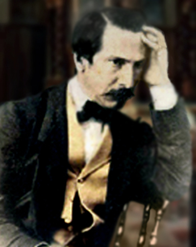 Julio Arboleda Pombo, Colombian President in charge in 1861.